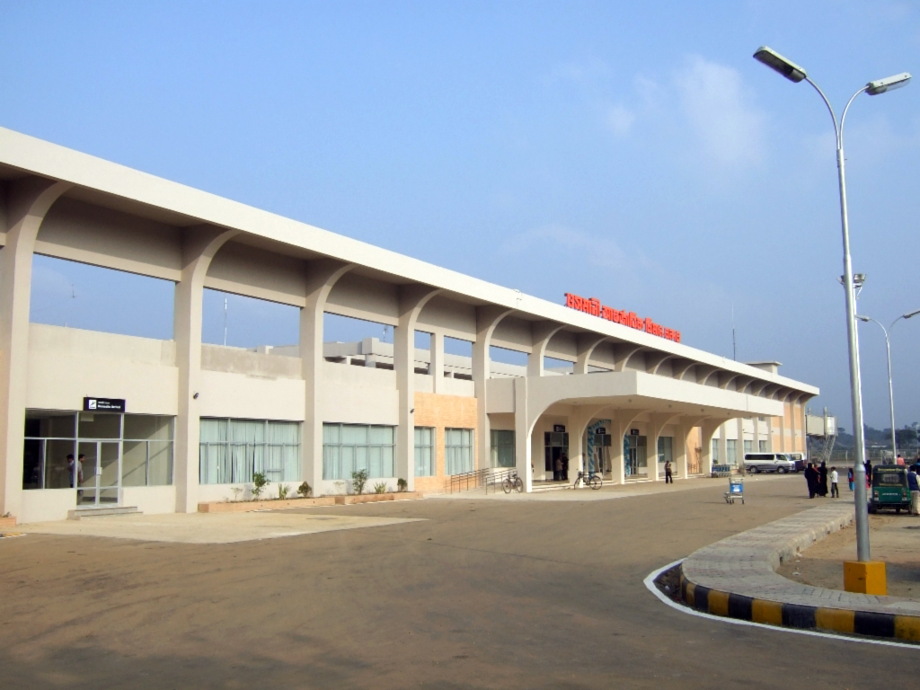 New building of Osmani International Airport in Sylhet, Bangladesh.